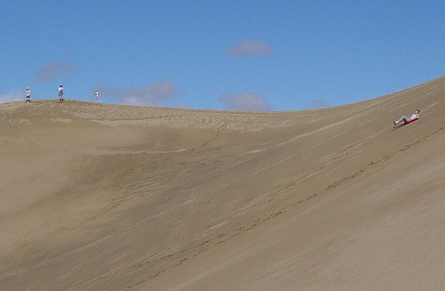 Photo taken by Daniel Mayer in April 2003.